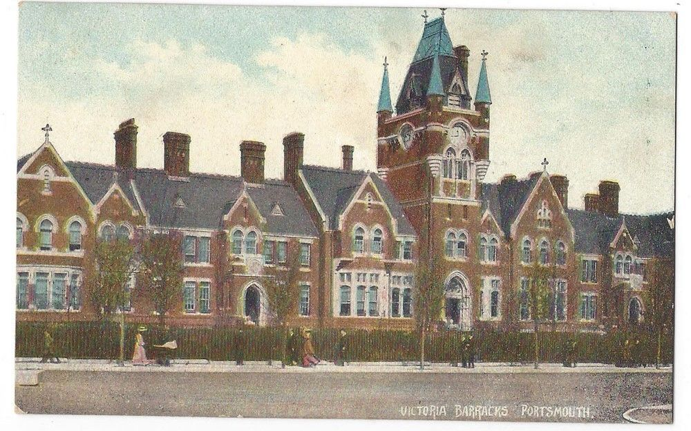 Old Postcard of Victoria Barracks, Portsmouth